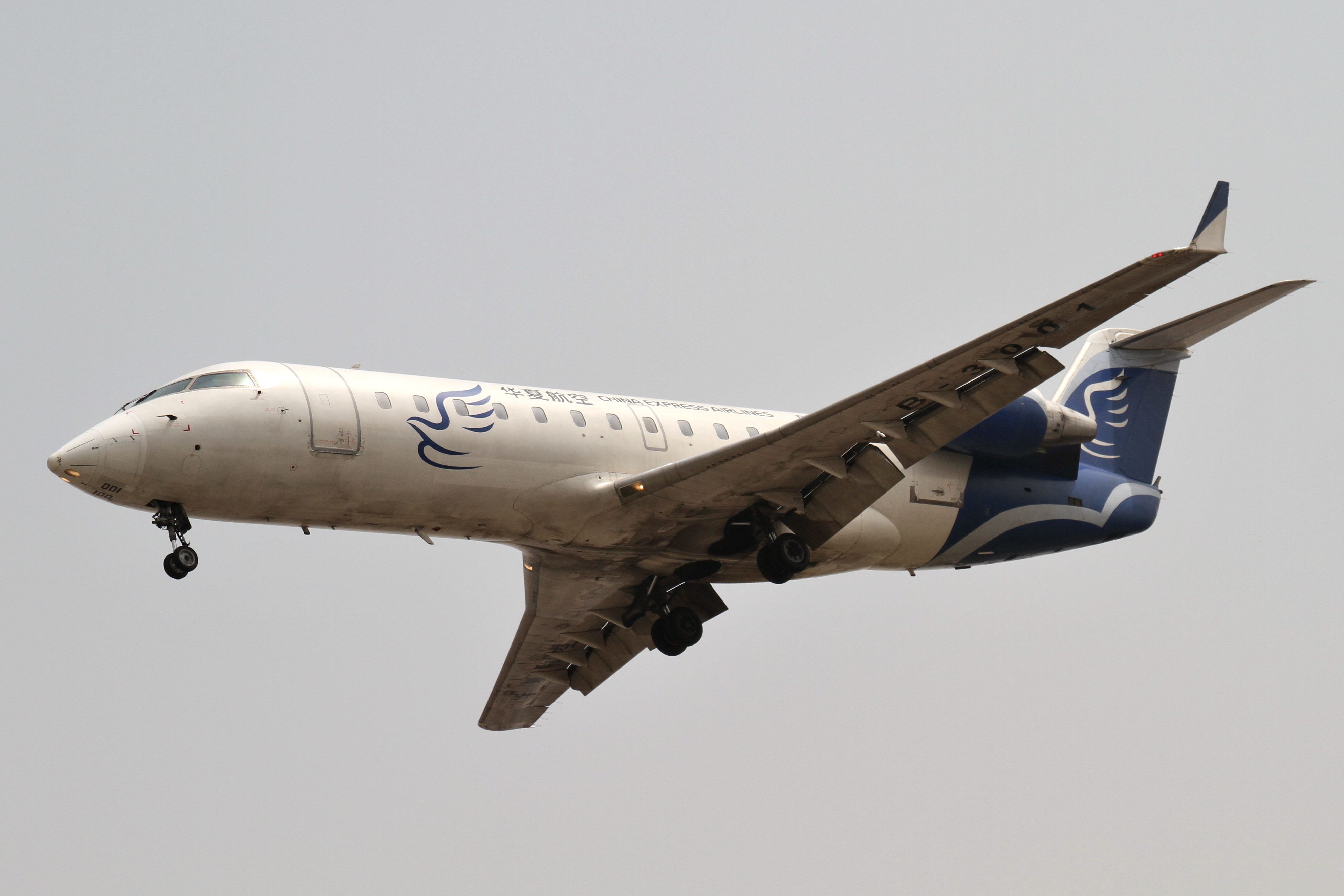 Dalian Airport, Canadair CL-600-2B19 Regional Jet CRJ-200ER, c/n:7565, China Express Airlines